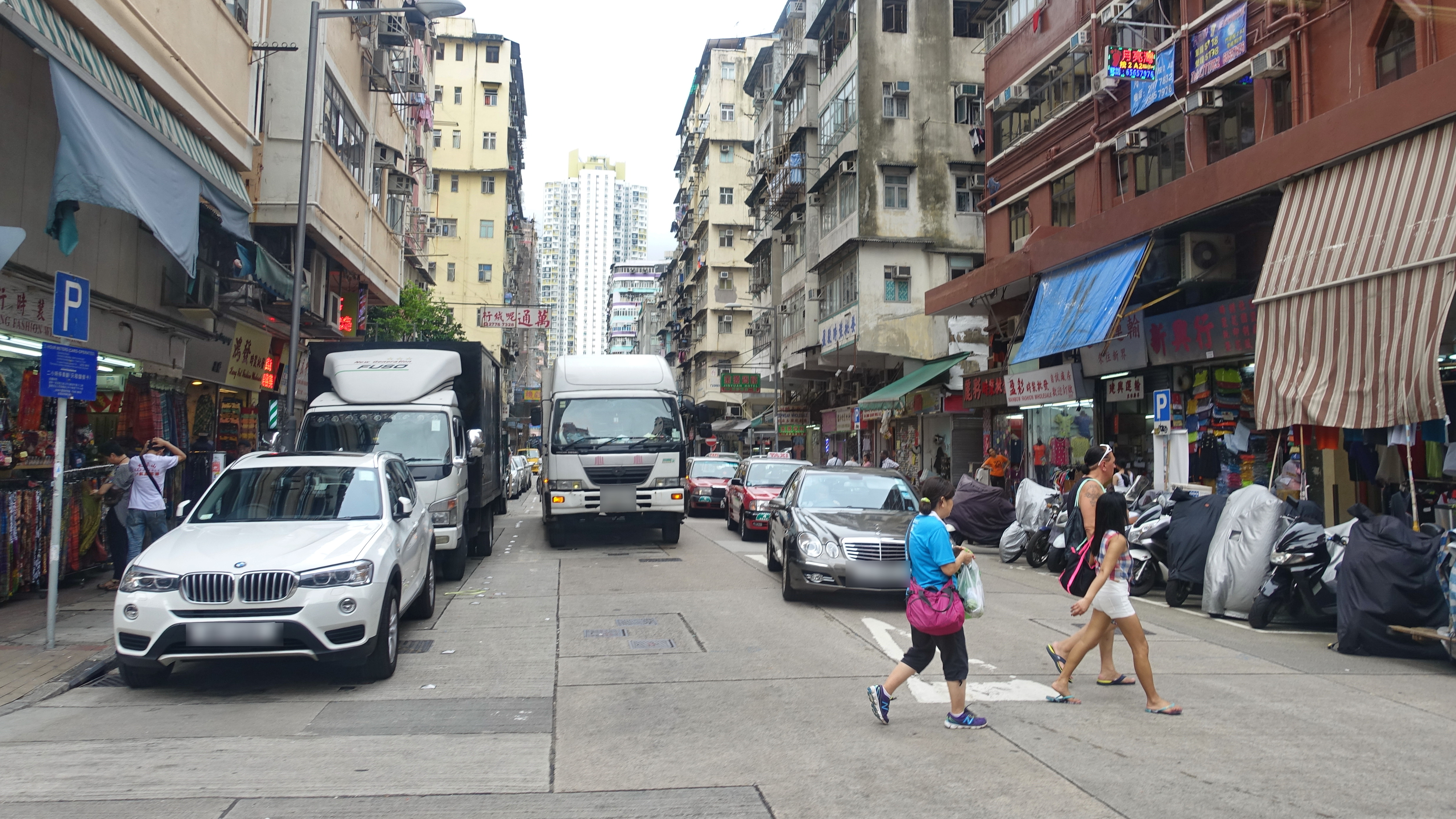 Shek Kip Mei Street near Cheung Sha Wan Road, Kowloon, Hong Kong.